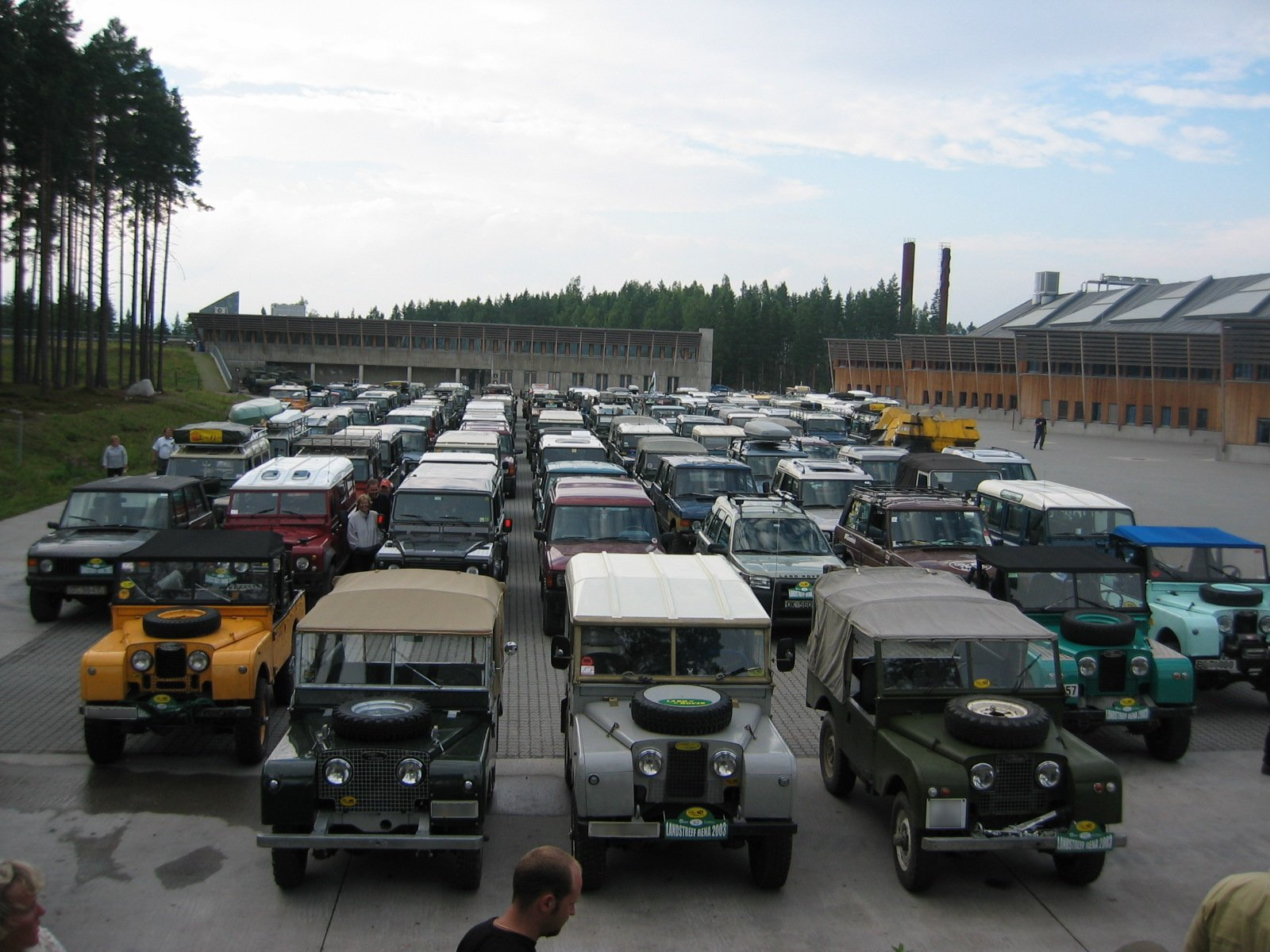 Norwegian Land Rover Club (NLRK) club meet in Rena, Norway, summer of 2003. Date: 2003-08-01 Camera: Canon Powershot S45 Photographer: Harald Hansen